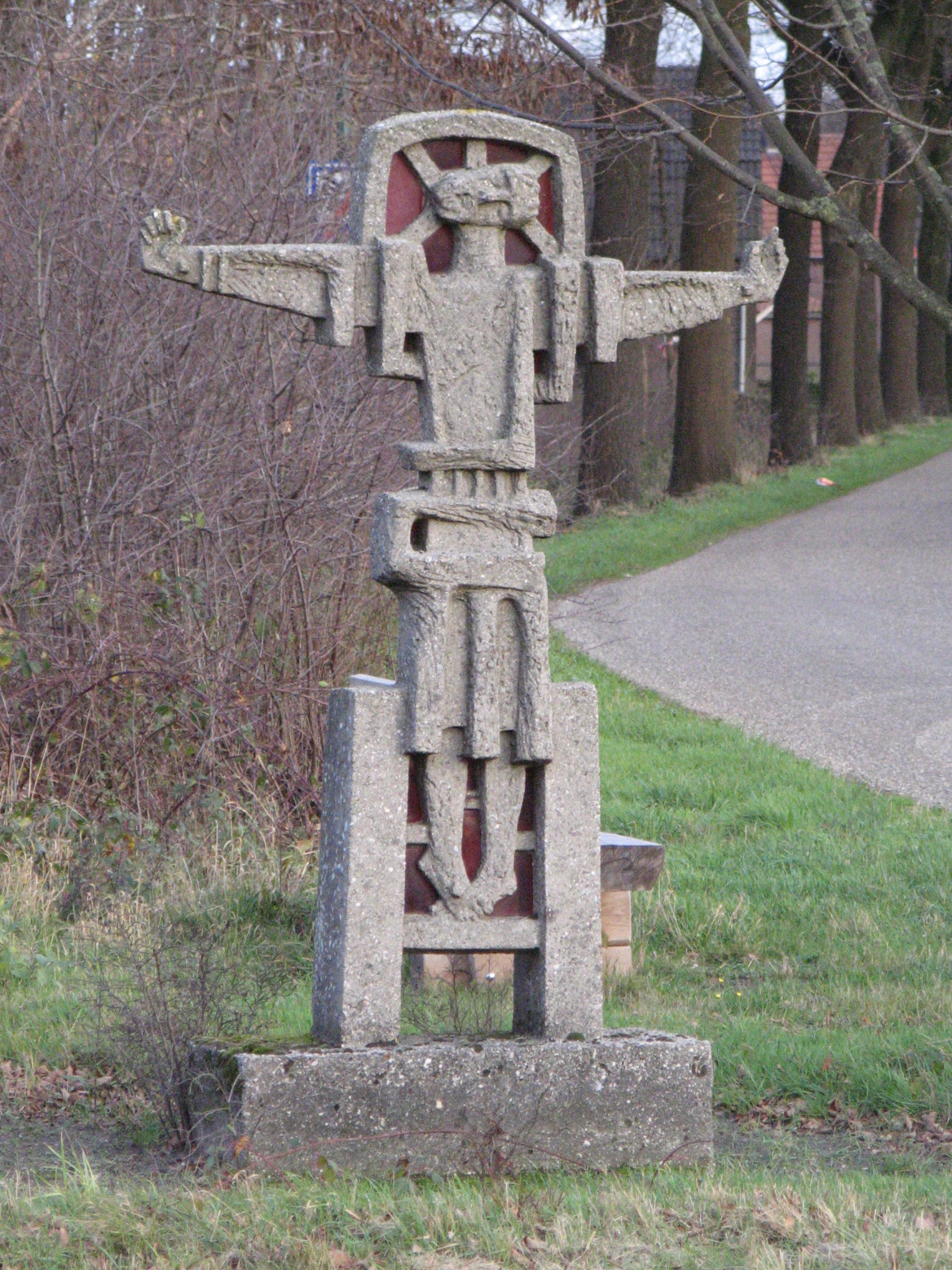 Concrete crucifix by Frans Coppelmans in Oploo (NL)